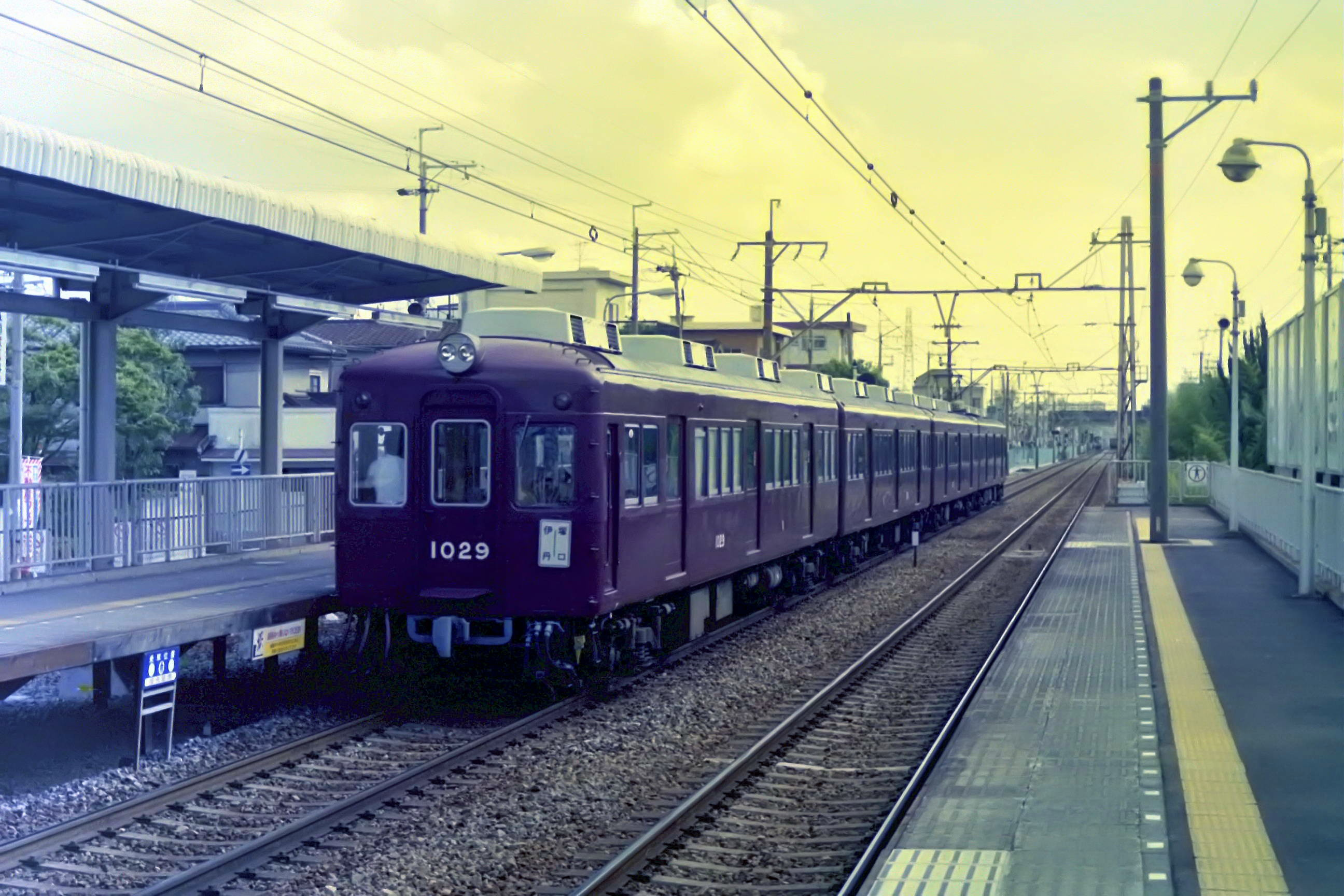 A Hankyu 1010 series EMU after the addition of air-conditioning